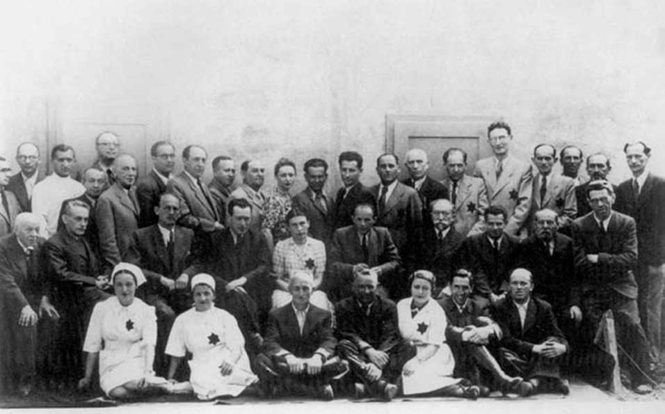 The Jewish Community Council, or Judenrat, in the Sosnowiec Ghetto during the Nazi German occupation of Poland in World War II. Moshe Merin (also Moniek Merin and Moszek Israel Merin) (1905-1943), head of Judenrat, pictured sitting in the centre, fifth from the right, middle row.